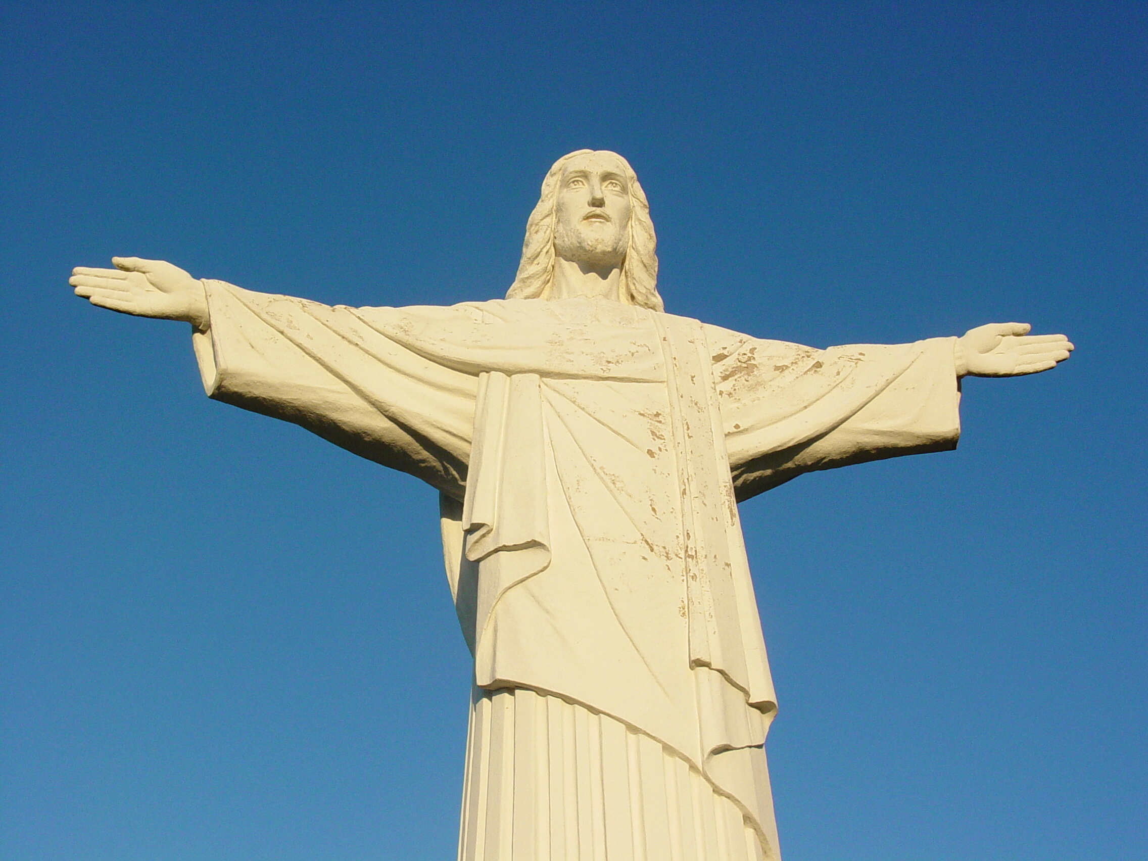 Christ statue over La Cumbre, Argentina. December 2004.